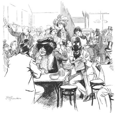 Aerated Bread Shops were a chain of tearooms common throughout the UK. Quoting from the book this image was published in: "From the corner of the picturesque "Aerated Bread Shop"—of all places—that abuts on to the church, a delightful view of all this may be had. This ancient lath-and-plaster building will, no doubt, in time be compelled to give way to some abnormally hideous new construction..."